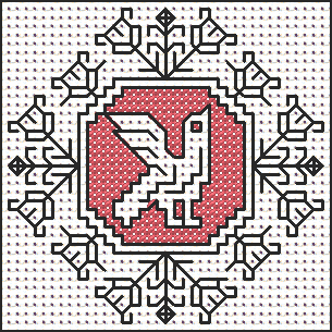 Digital simulation of a typical Assisi embroidery motif